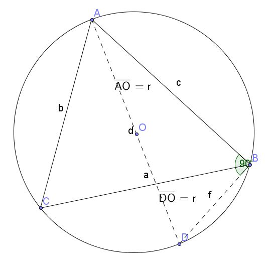 Deriving the ratio of the sine law equal to the circumscribing diameter. Note that triangle ADB passes through the center of the circumscribing circle.